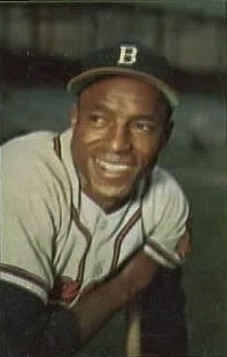 Boston Braves centerfielder Sam Jethroe on a 1953 Bowman baseball card.